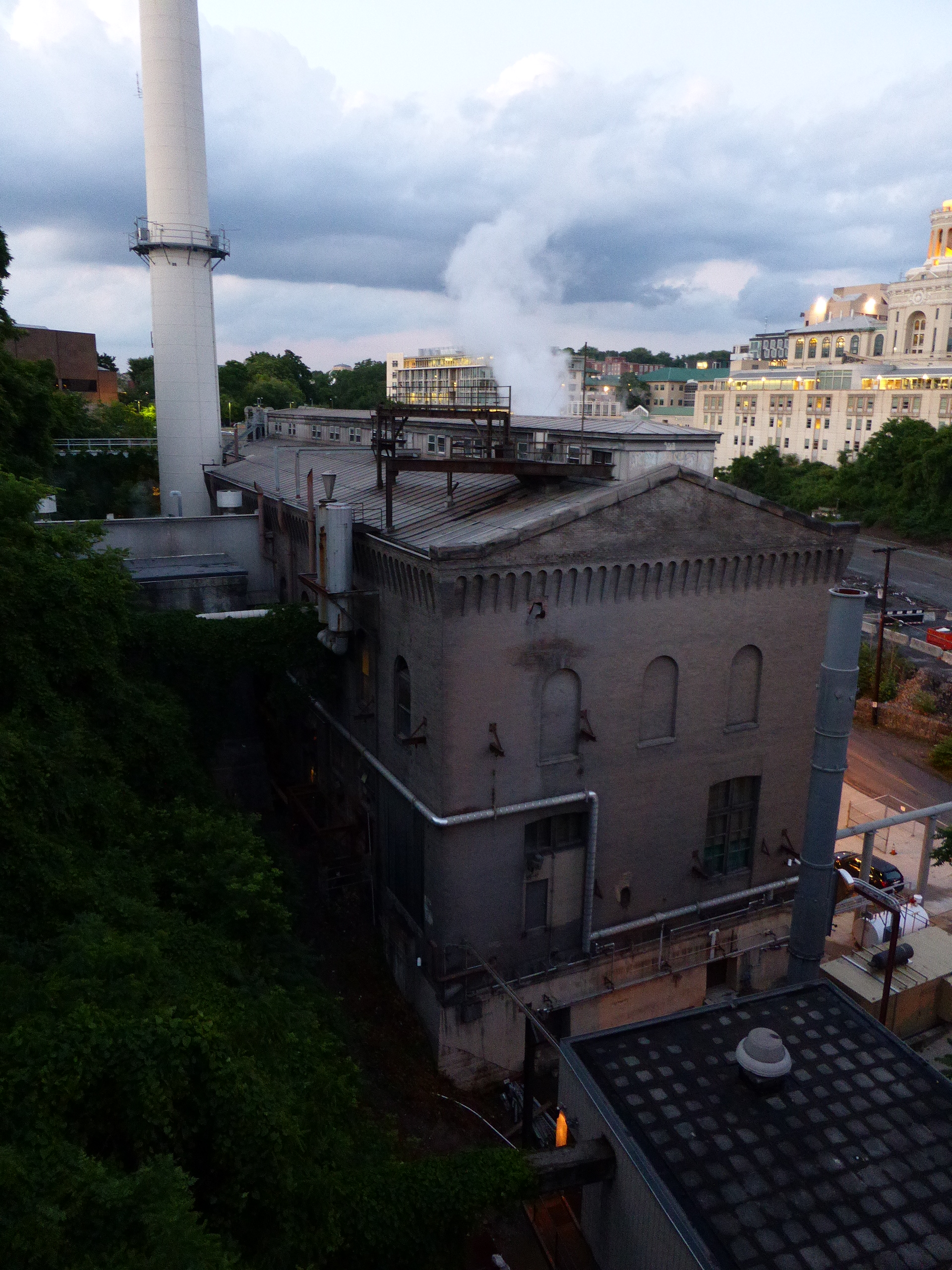 Boiler plant in Pittsburgh; photographed from Schenley bridge